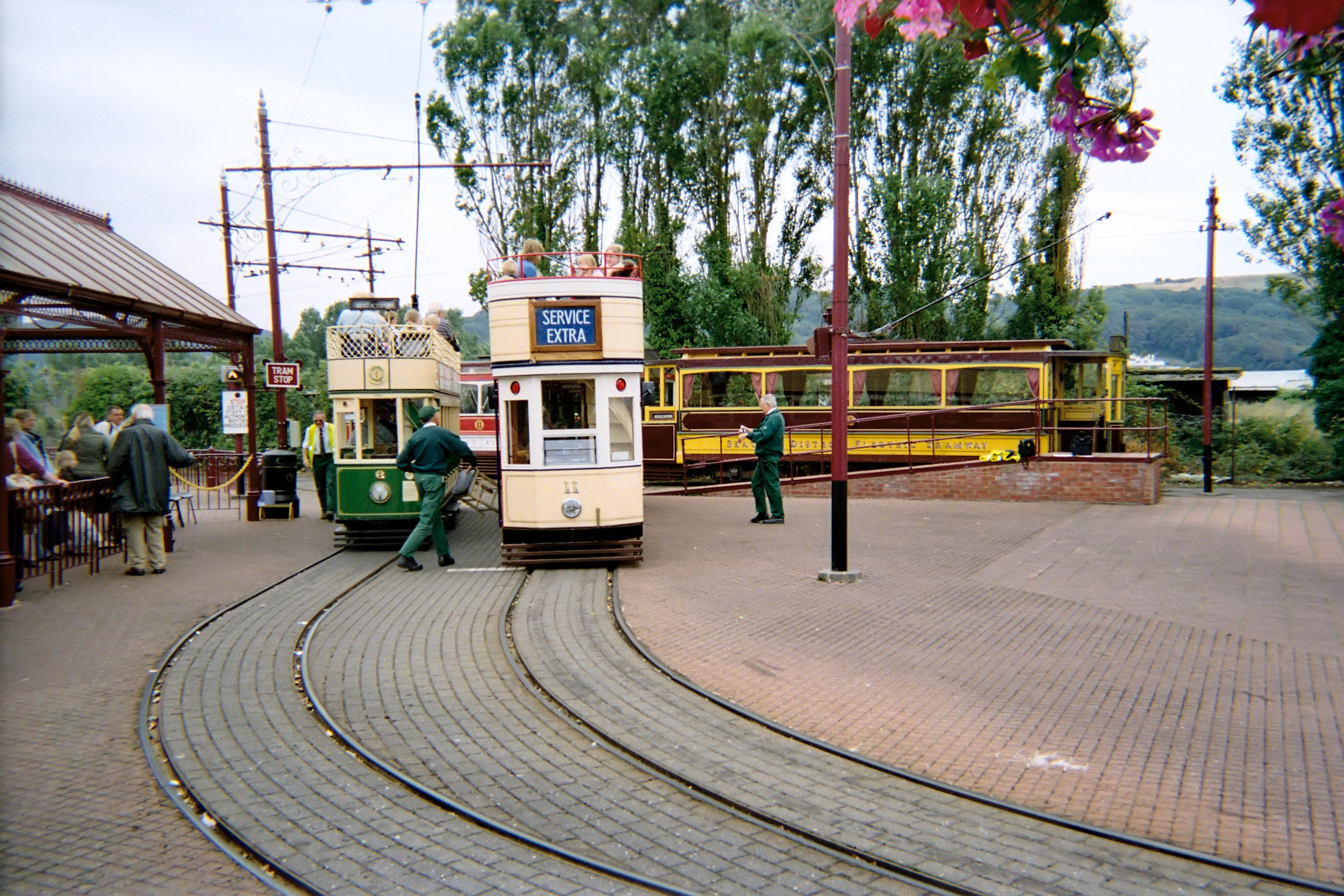 The Seaton terminus of the Seaton Tramway in Seaton, Devon. Seen in the picture are car 6 (in green, built 1954), car 11 (in cream, built 2002) and behind them are cars 14 (in red, built 1904, rebuilt 1962-1984) and car 16 (in brown, built 1921, rebuilt 1974-1991). On the left is the modern terminus building, built in 1995.